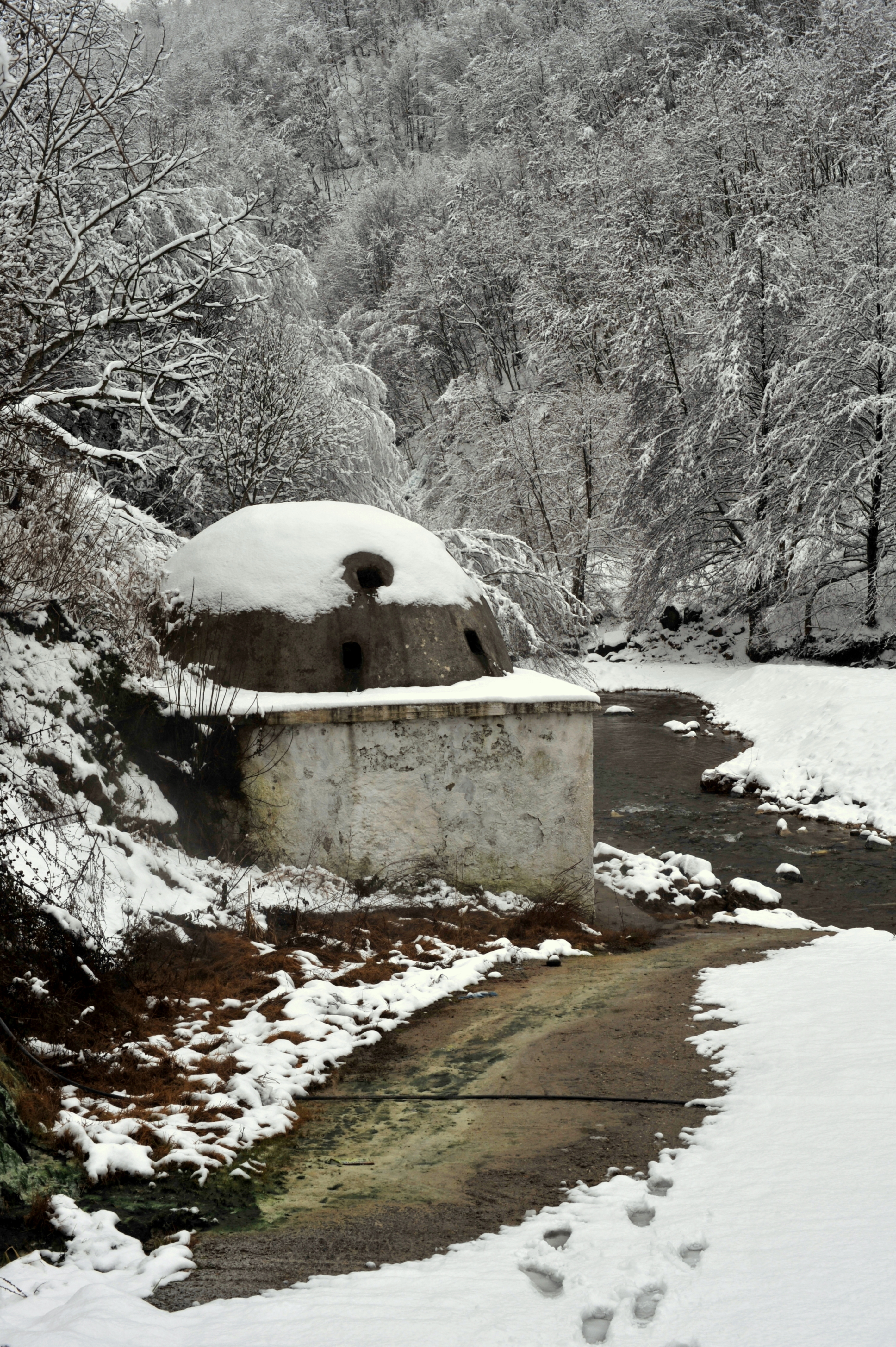 Ottoman hot spring hamam - Budali Hoca_Tekke - Thermes - Xanthi springs, Xanthi Prefecture, Greece.